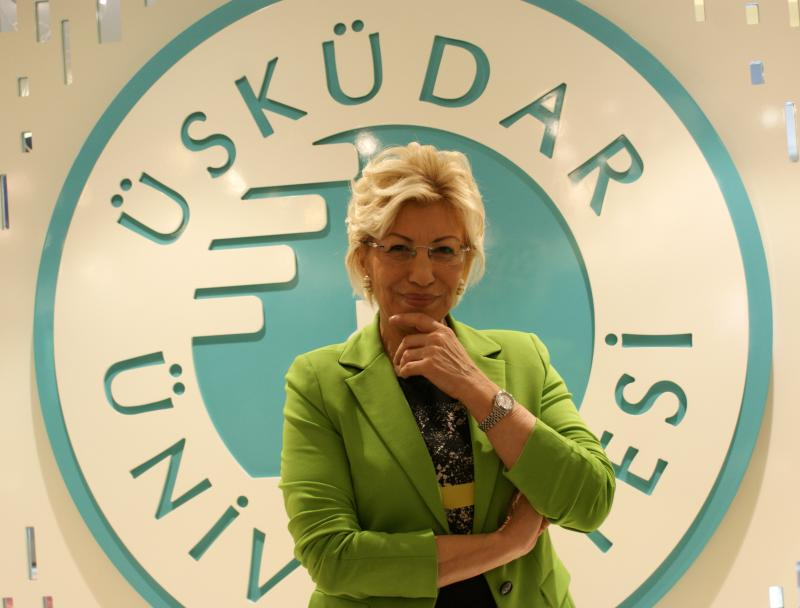 Photo taken at the current work place of Prof. Dr. Sevil Atasoy